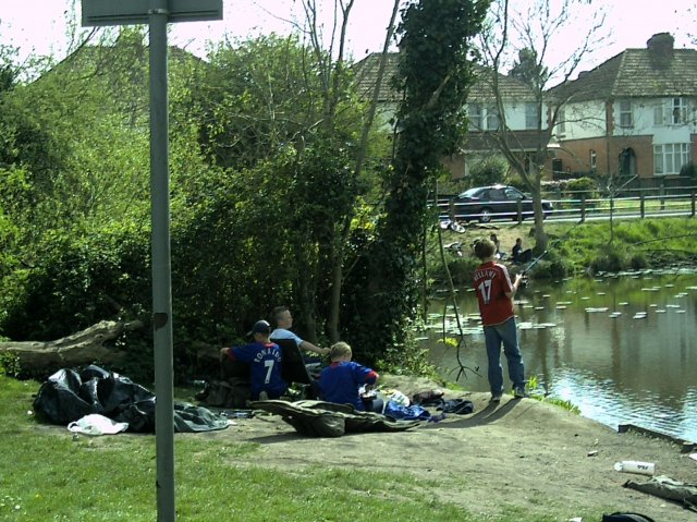 Pond in Bridgwater